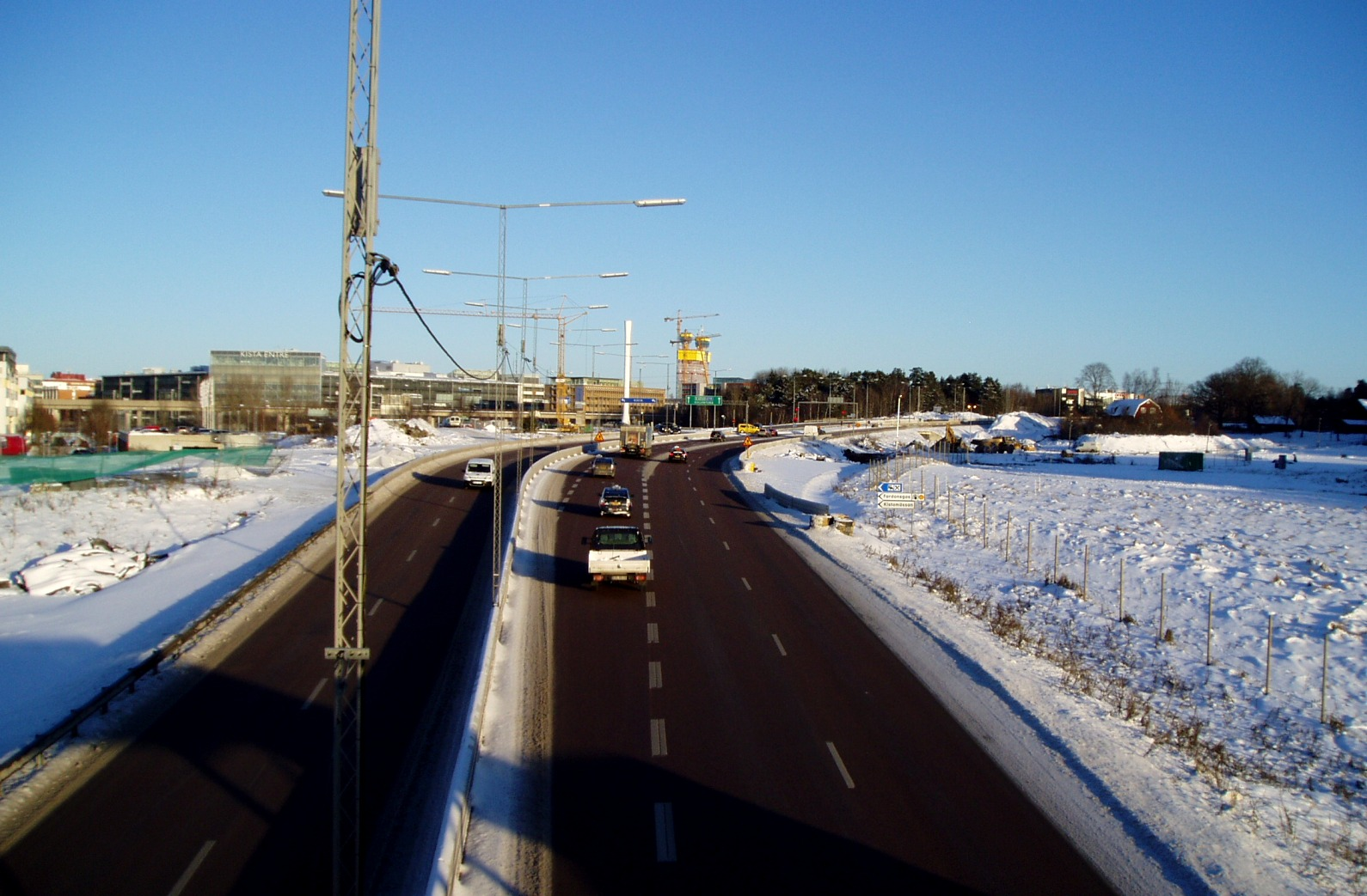 Kymlingelänken, motorway in Kista, Stockholm